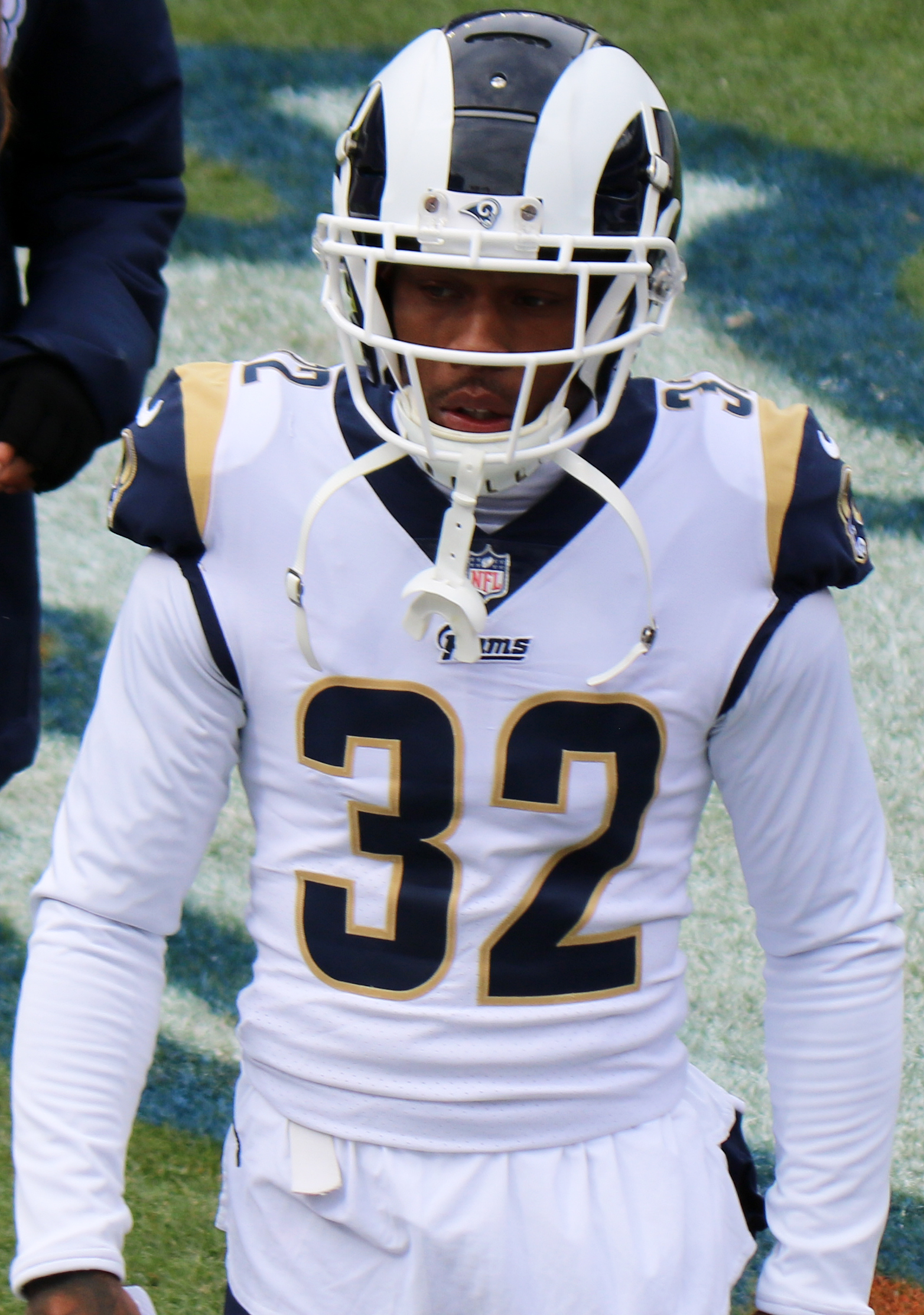 Troy Hill, a National Football League player.